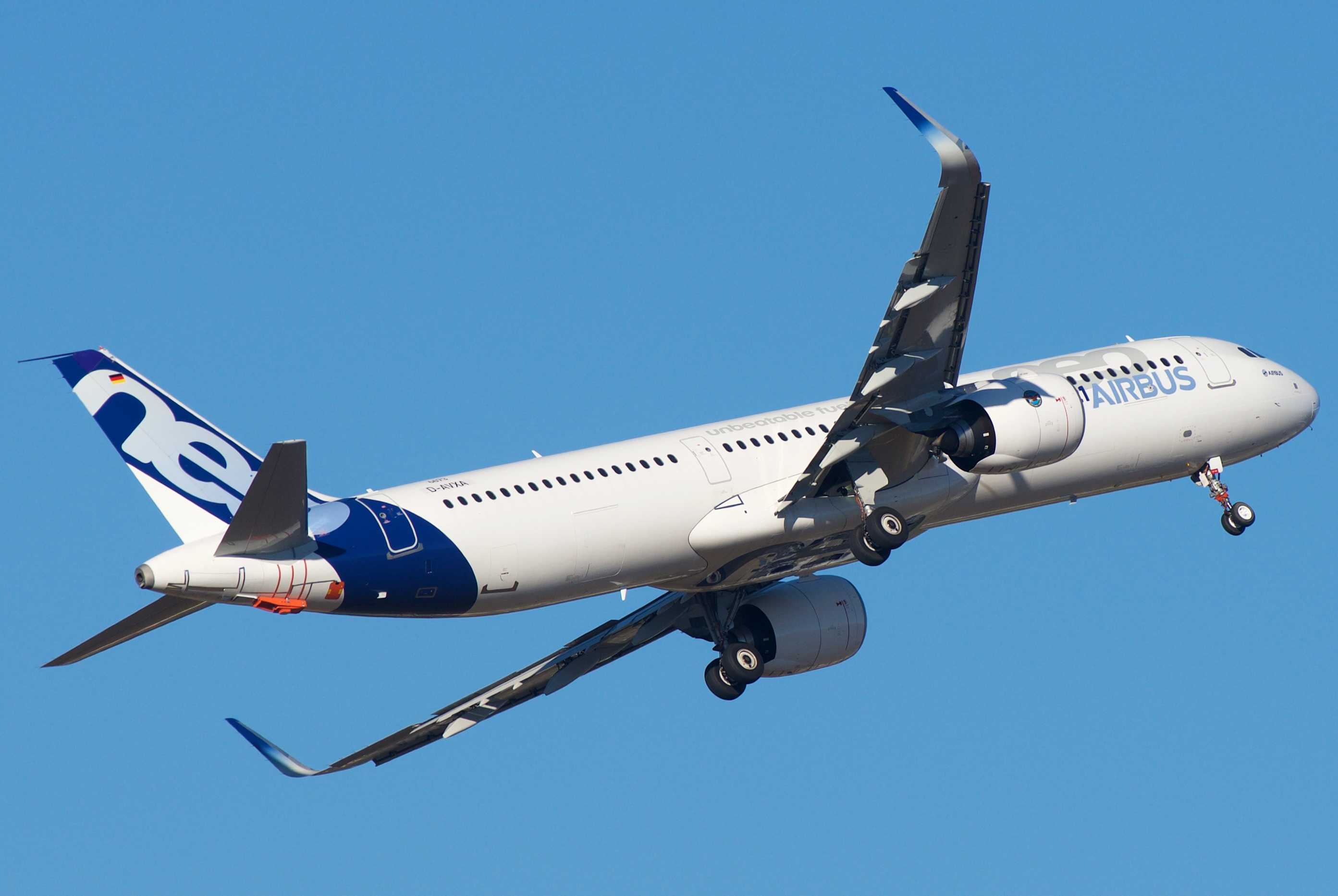 Low speed turn off take-off. Airbus testbed A321neo at Toulouse.